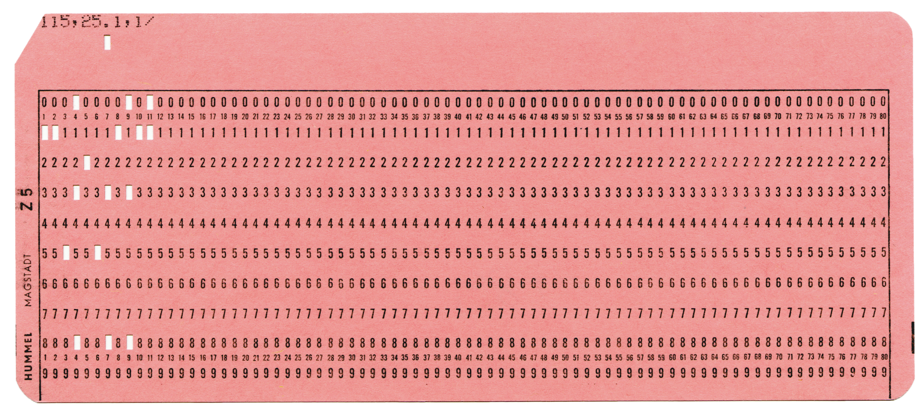 Punched card in the 80-column-format according to the IBM standard.